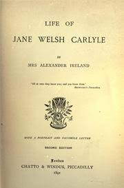 Jane Carlyle biog by Mrs Alexander Ireland (Annie Elizabeth Nicholson Ireland pub. 1891